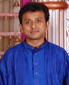 Unnikrishnan at a public function